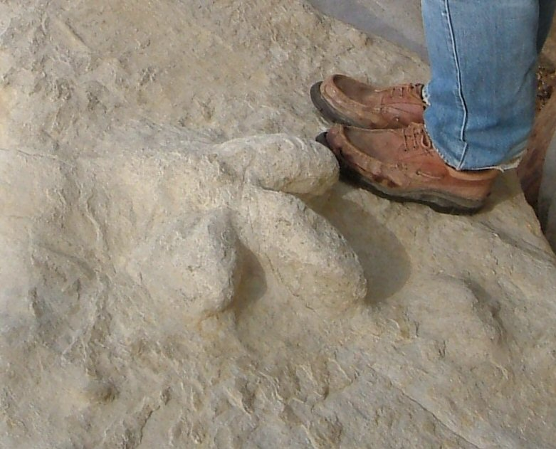 Dinosaur foorprint found in rocks at the base of the cliffs near Fairlight, Sussex, England, 2007